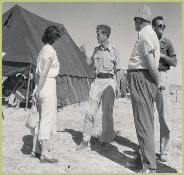 Zionist pioneers founders of Kibbutz Sde Boker, 1952, from right to left: Jacob Orev, Micha Talmon, Hagai Avriel, Hanah Avriel